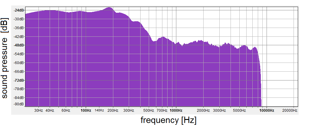 Sound spectrum of thunder obtained using Audacity 1.3 (Beta)